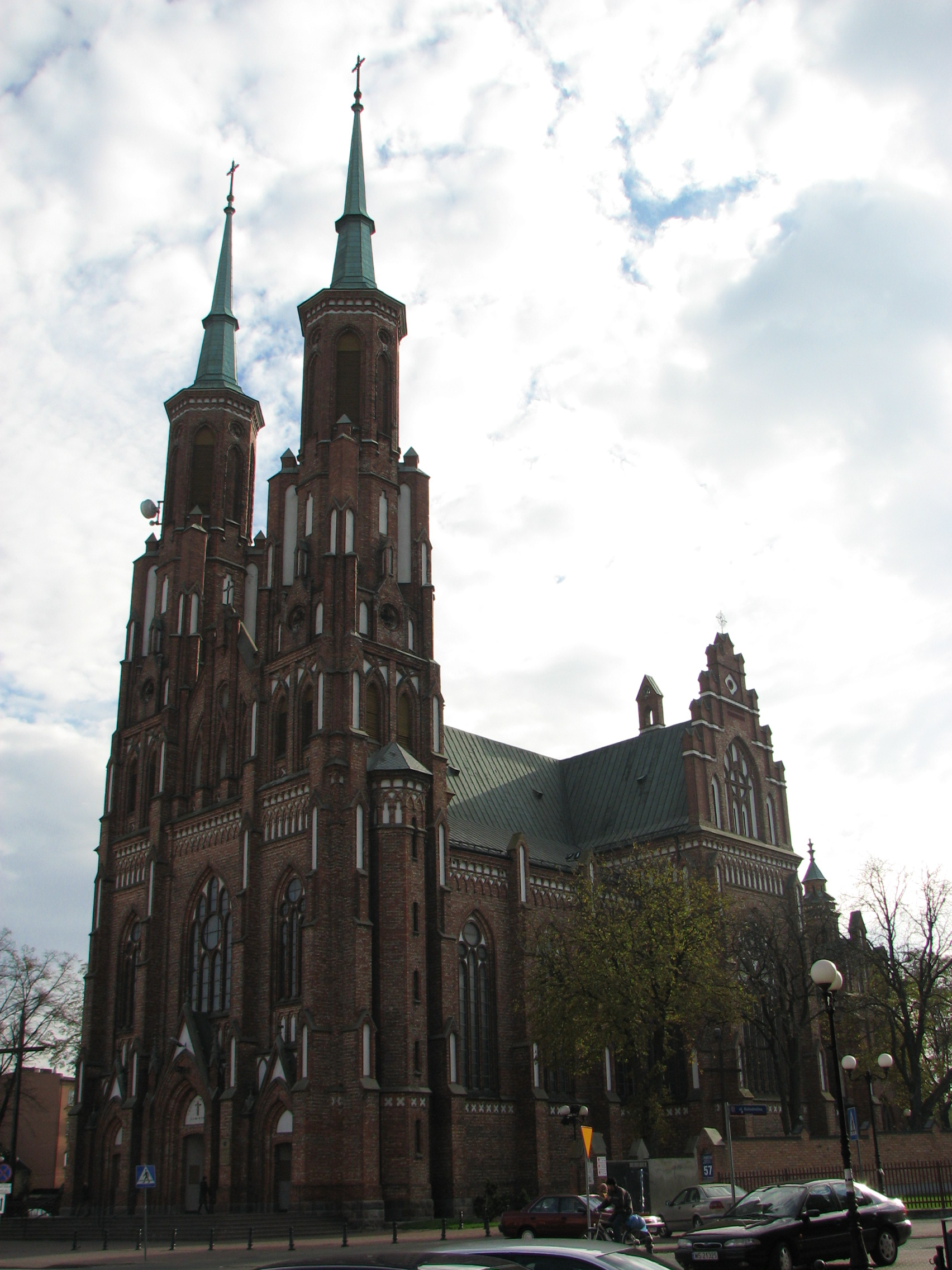 Cathedral in Sieldce, Poland